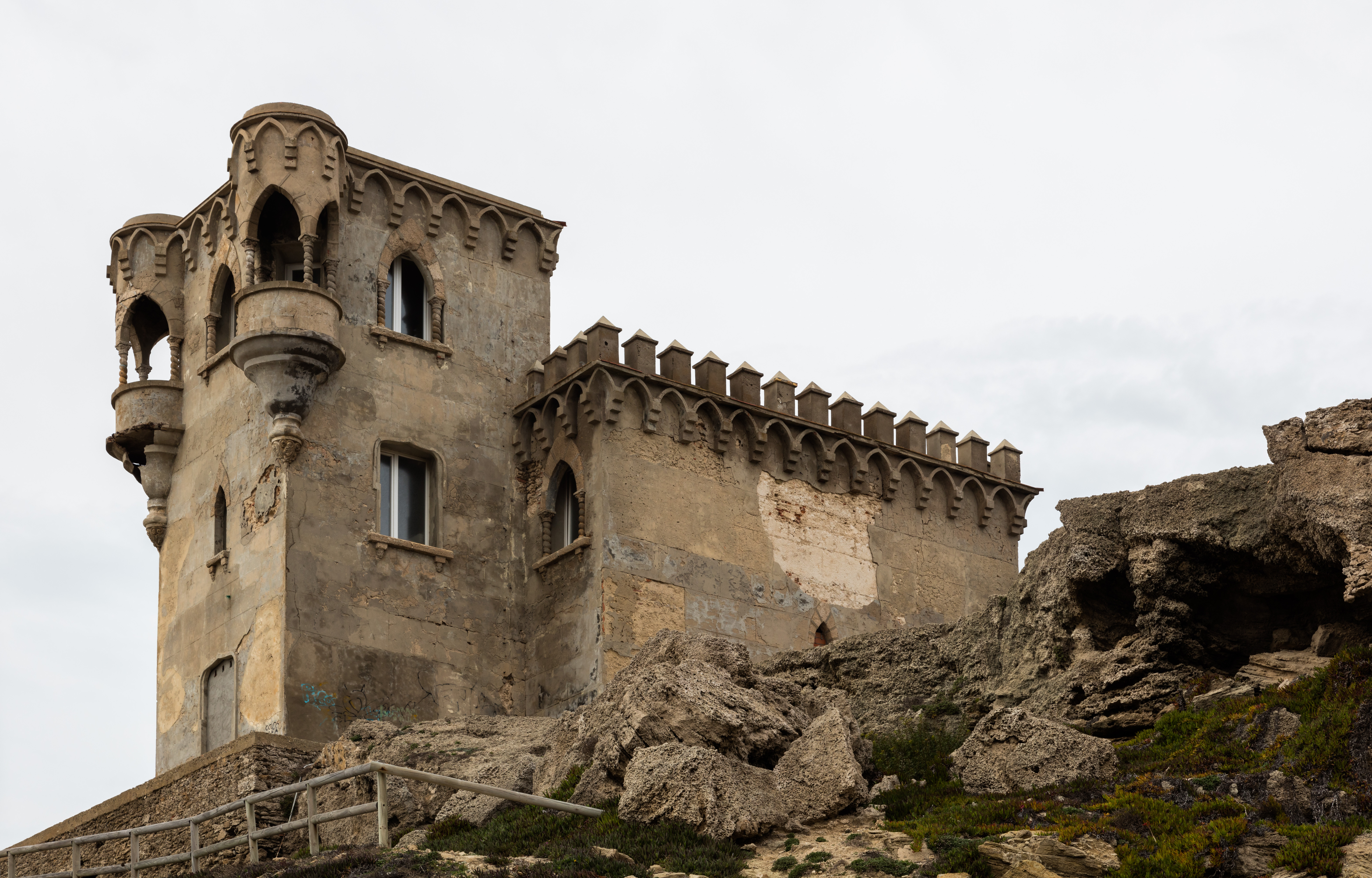 Castle of Santa Catalina, Tarifa, Cádiz, Spain